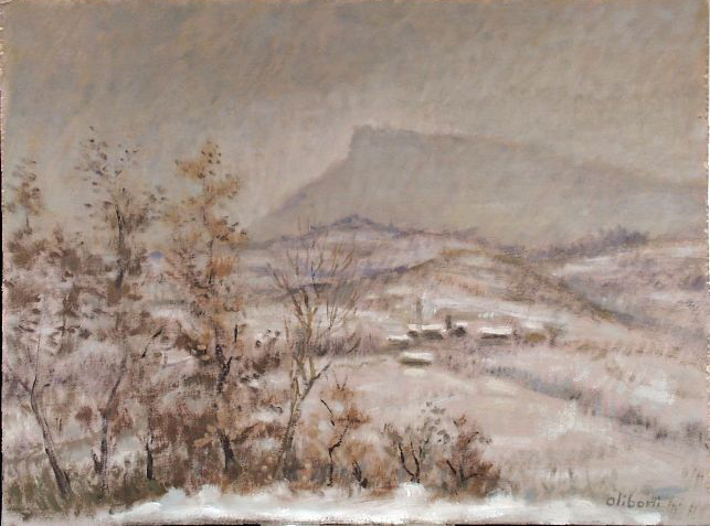 Painting by Silvio Oliboni : Paesaggio Invernale / 0293ae